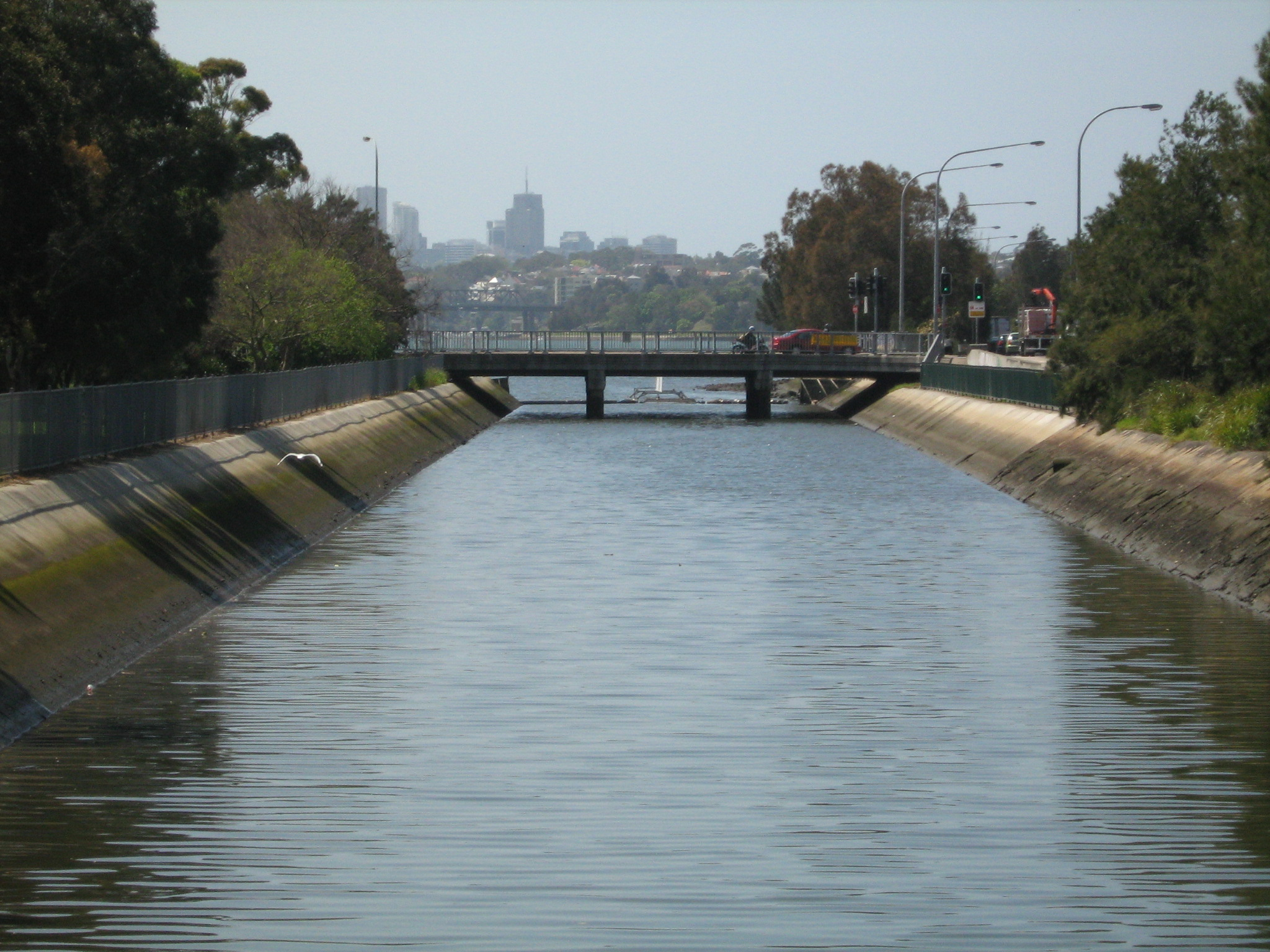 Iron Cove Creek's polluted waters empty into Iron Cove at Five Dock. Note the rubbish trap. Taken: 25 September 2007